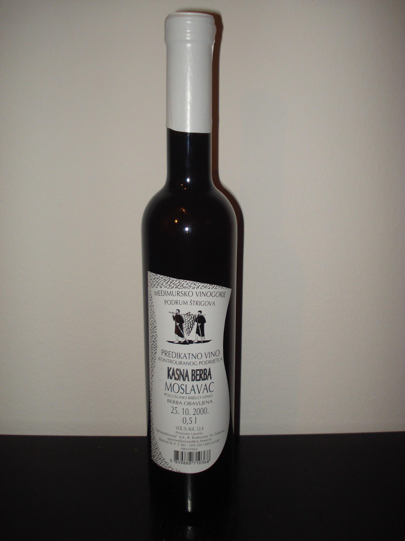 A bottle of Moslavac (or Furmint) wine, "Prädikat Auslese" (late harvest), from Medjimurie wine growing subregion, northern Croatia